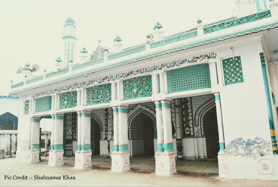 Oldest Masques of Surseni